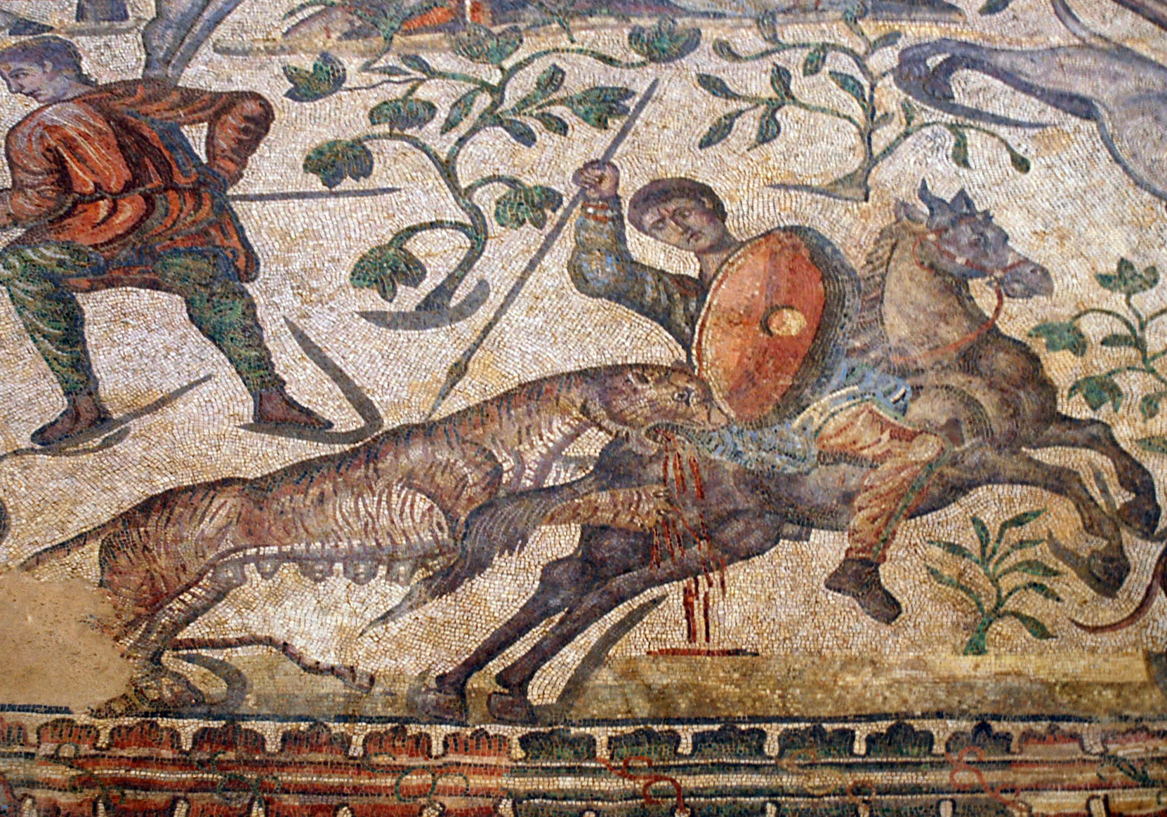 Roman mosaic of hunting in roman villae of La Olmeda, Pedrosa de la Vega (Palencia, Castile and León).